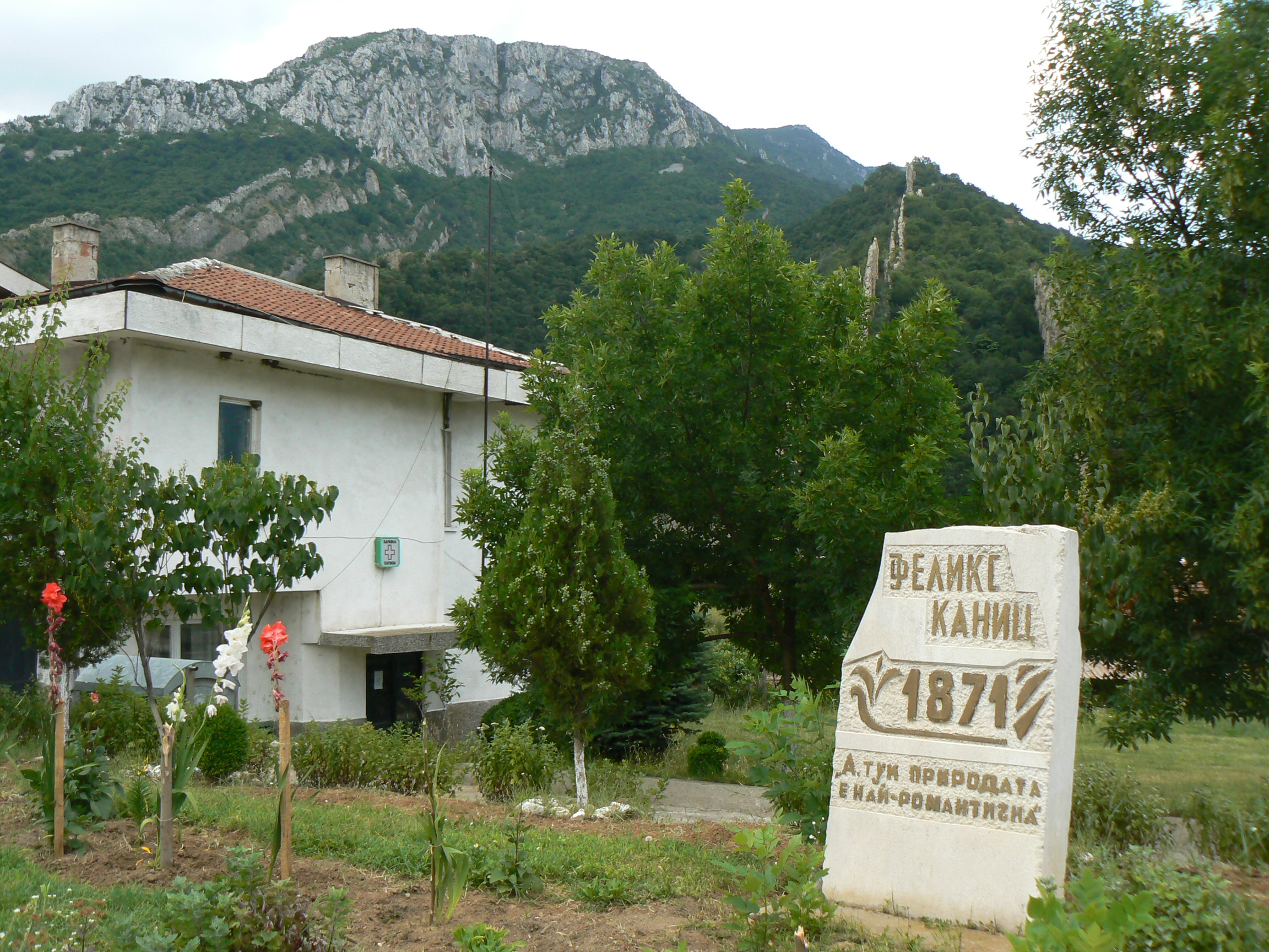 Memorial plaque with quotation by Felix Philipp Kanitz in village Lyutibrod, Bulgaria. In the rear - Ritlite